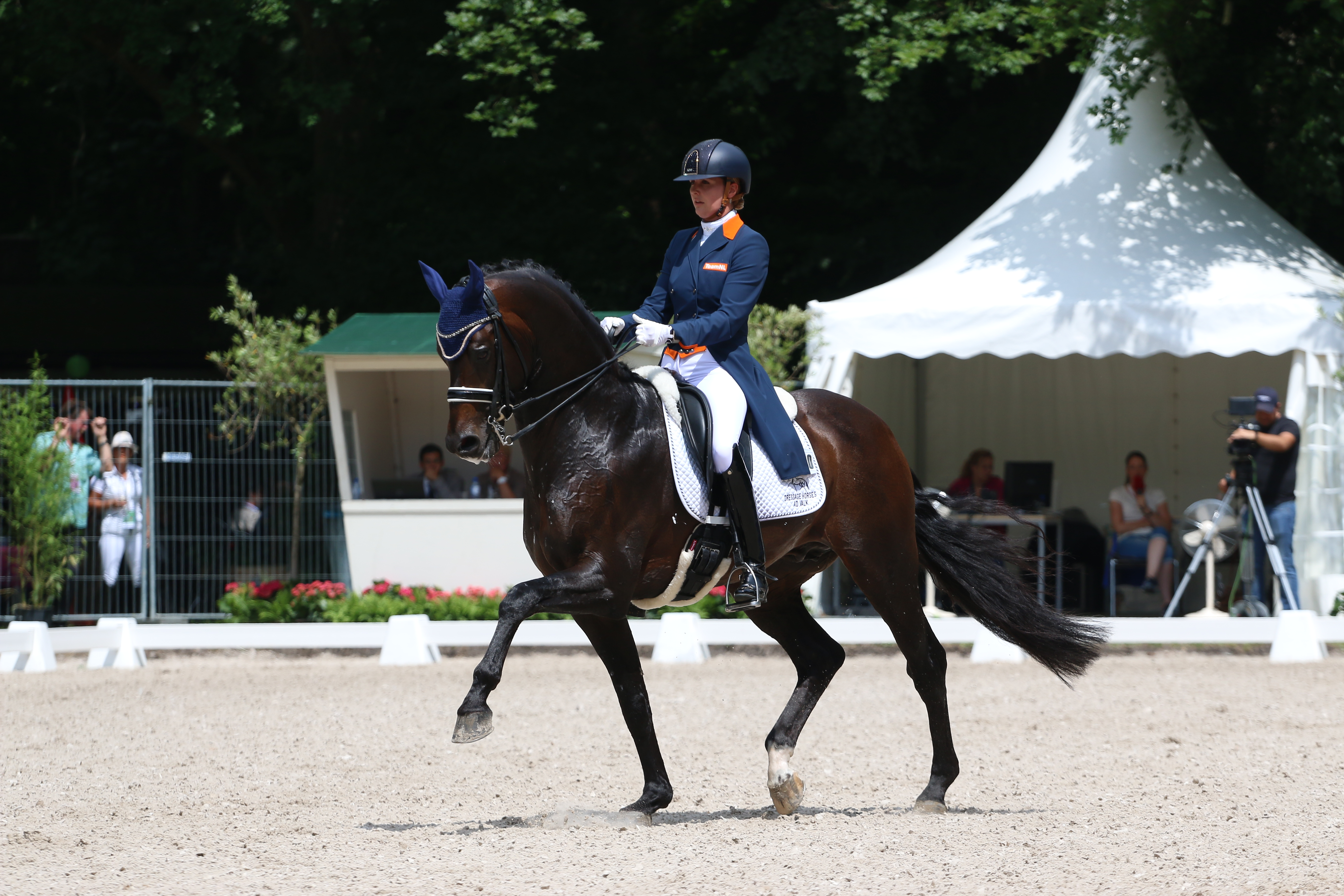 Emmelie Scholtens and Apache at the 2017 CHIO Rotterdam.